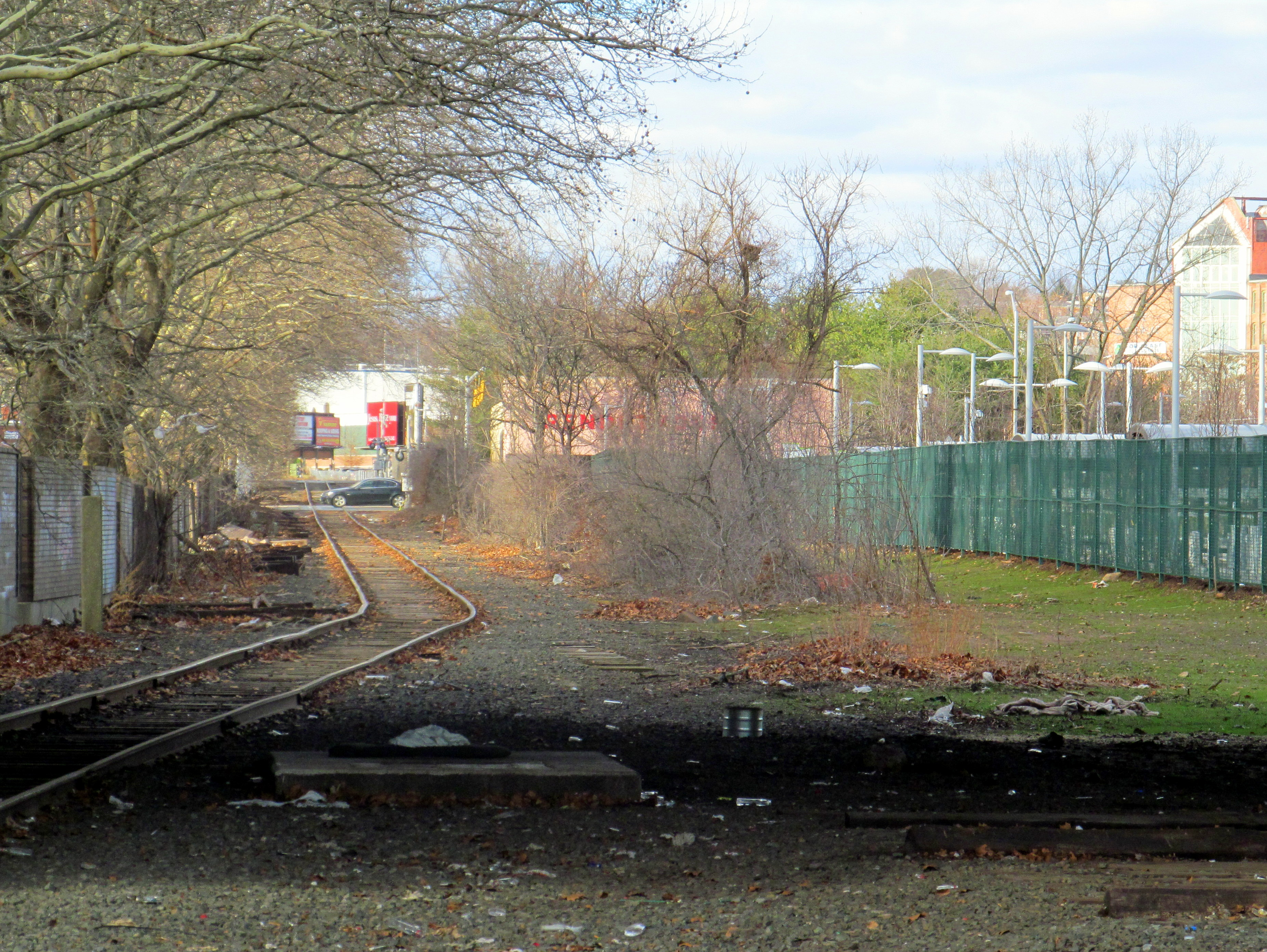 Potential location for a commuter rail platform at Downtown New Britain station. This is the approximate location of the former passenger station, which was torn down in late 1956 (though rail service lasted until 1960).